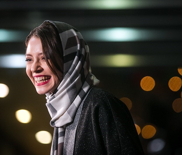 Shadi Karamroudi